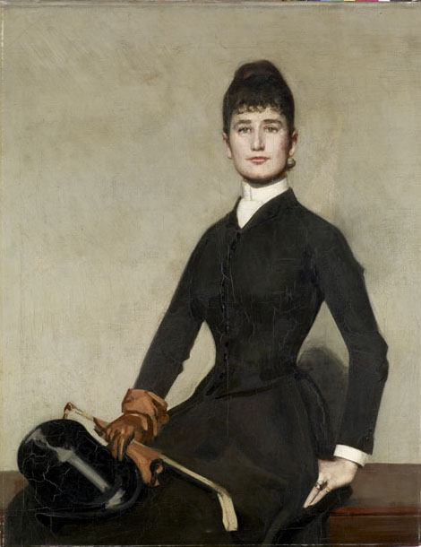 Portrait of Gertrude Kingston